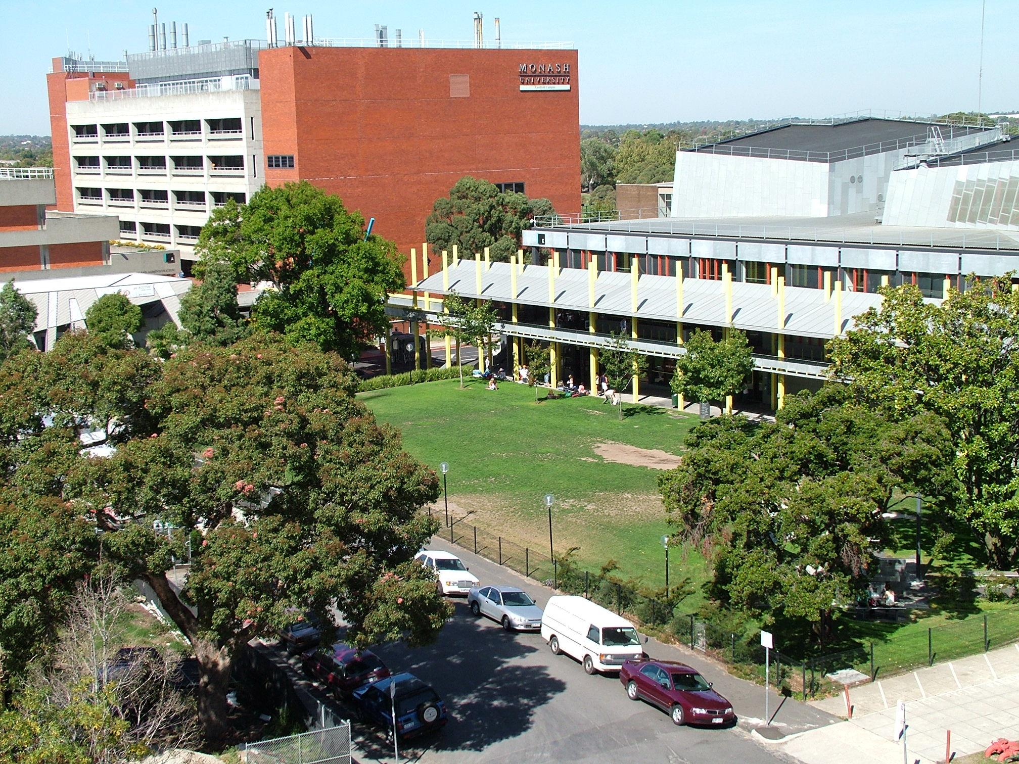 Bildet er tatt fra parkeringshuset på Monash University, Caulfield Campus, Melbourne, Australia. (2005) Jarle Andersen